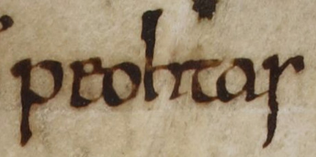 An excerpt from folio 124r of British Library Cotton MS Tiberius B I (the "C" version of the Anglo-Saxon Chronicle. A transcription of this excerpt appears on page 43 of: O'Keeffe, KO, ed. (2001). The Anglo-Saxon Chronicle: A Collaborative Edition. Vol. 5, MS C. Cambridge: D.S. Brewer. ISBN 0 85991 491 7. The transcription reads: "Peohtas".